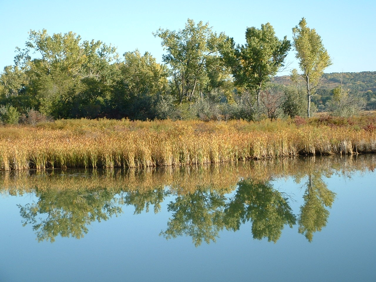 Along the South Dakota shore across from Verdel, Nebraska